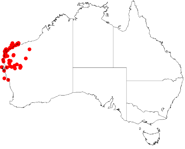 Scaevola cunninghamii occurrence data from Australasian Virtual Herbarium downloaded 12 May 2019 (no doi)